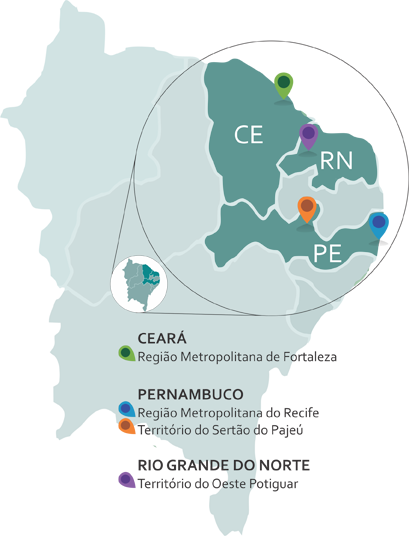 Diaconia Work Areas